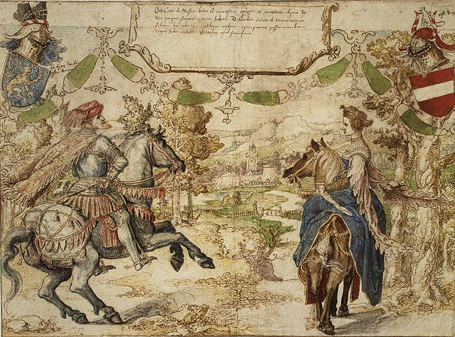 Otto, Count of Nassau, and his Wife Adelheid van Vianden